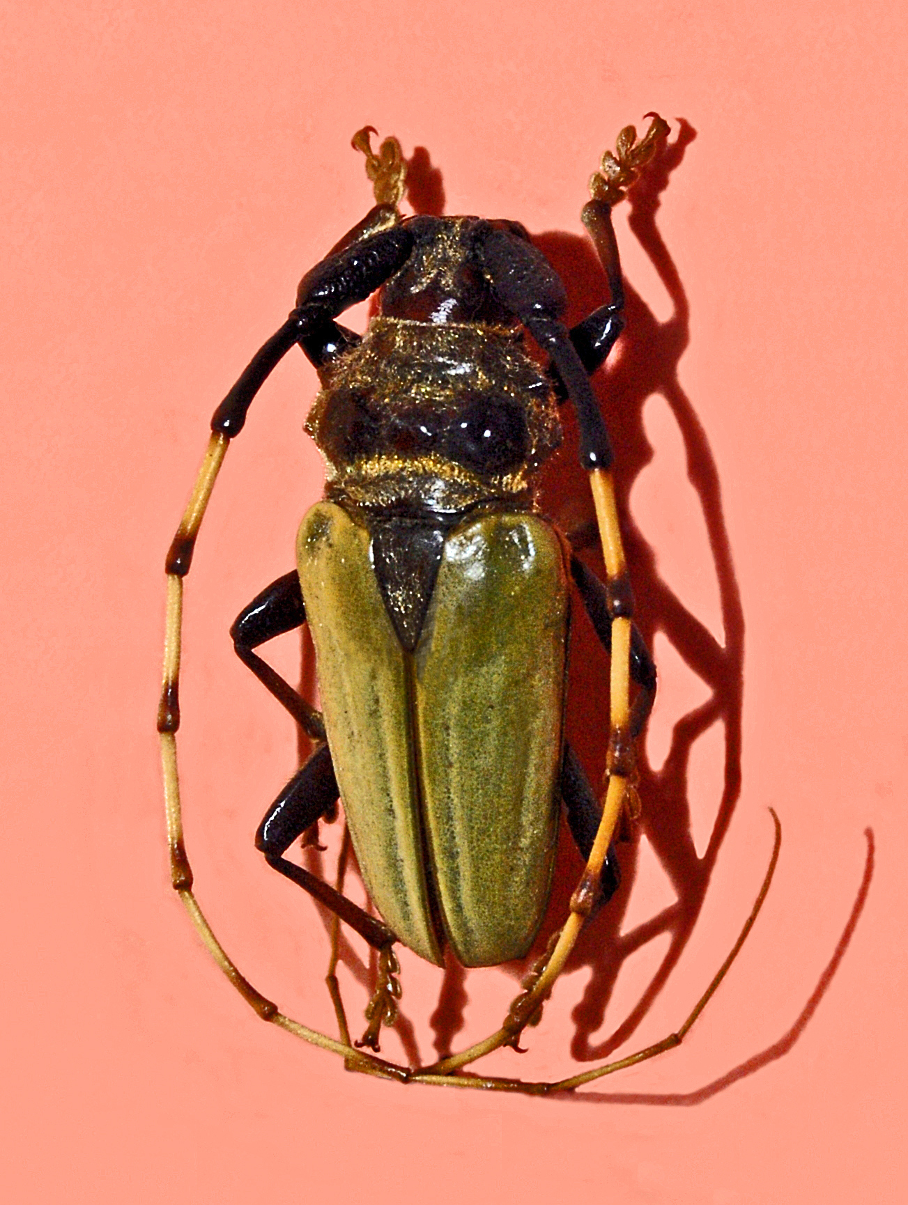 Museum specimen of Ancylosternus morio. On display at the Museo Civico di Storia Naturale di Milano